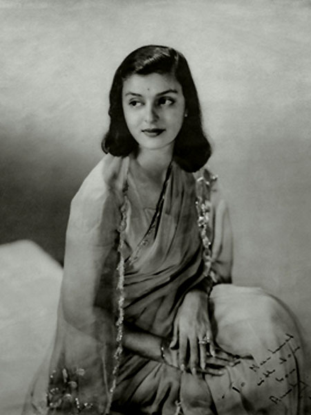 Maharani Gayatri Devi, Rajmata of Jaipur, née Princess Ayesha of Cooch Behar, 1954